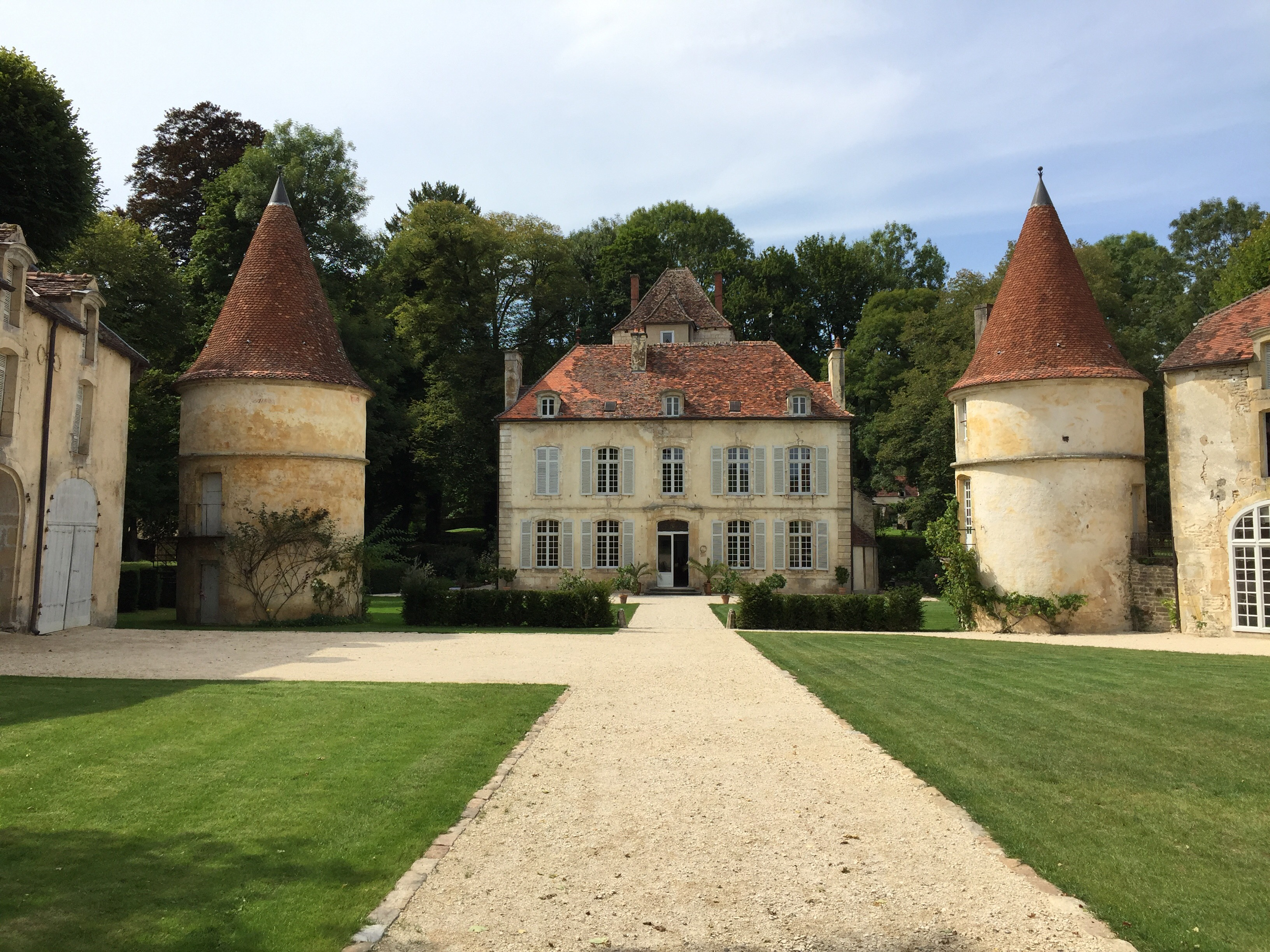 Quemigny face Est